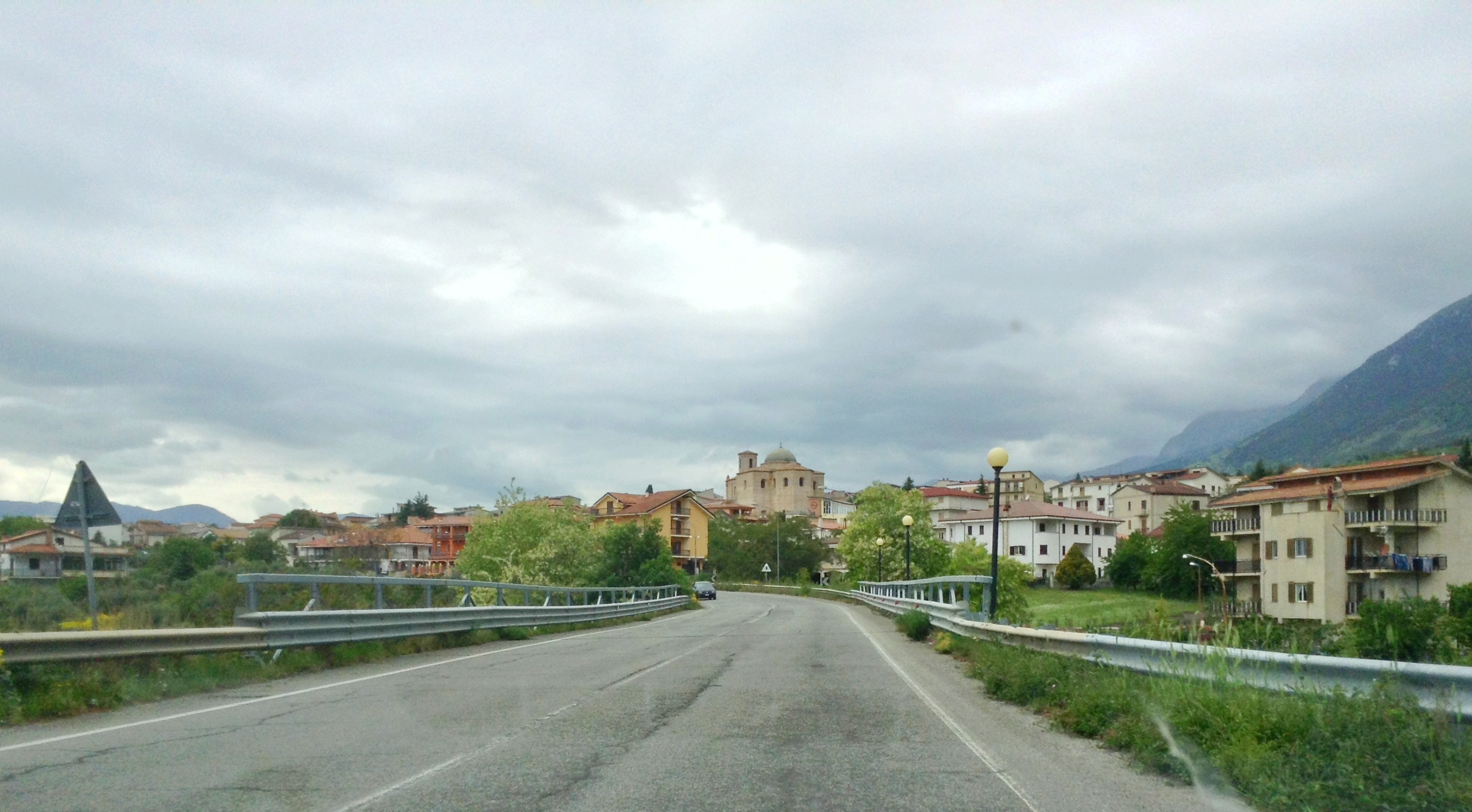 Frascineto; in the background the Chiesa Santa Maria Assunta